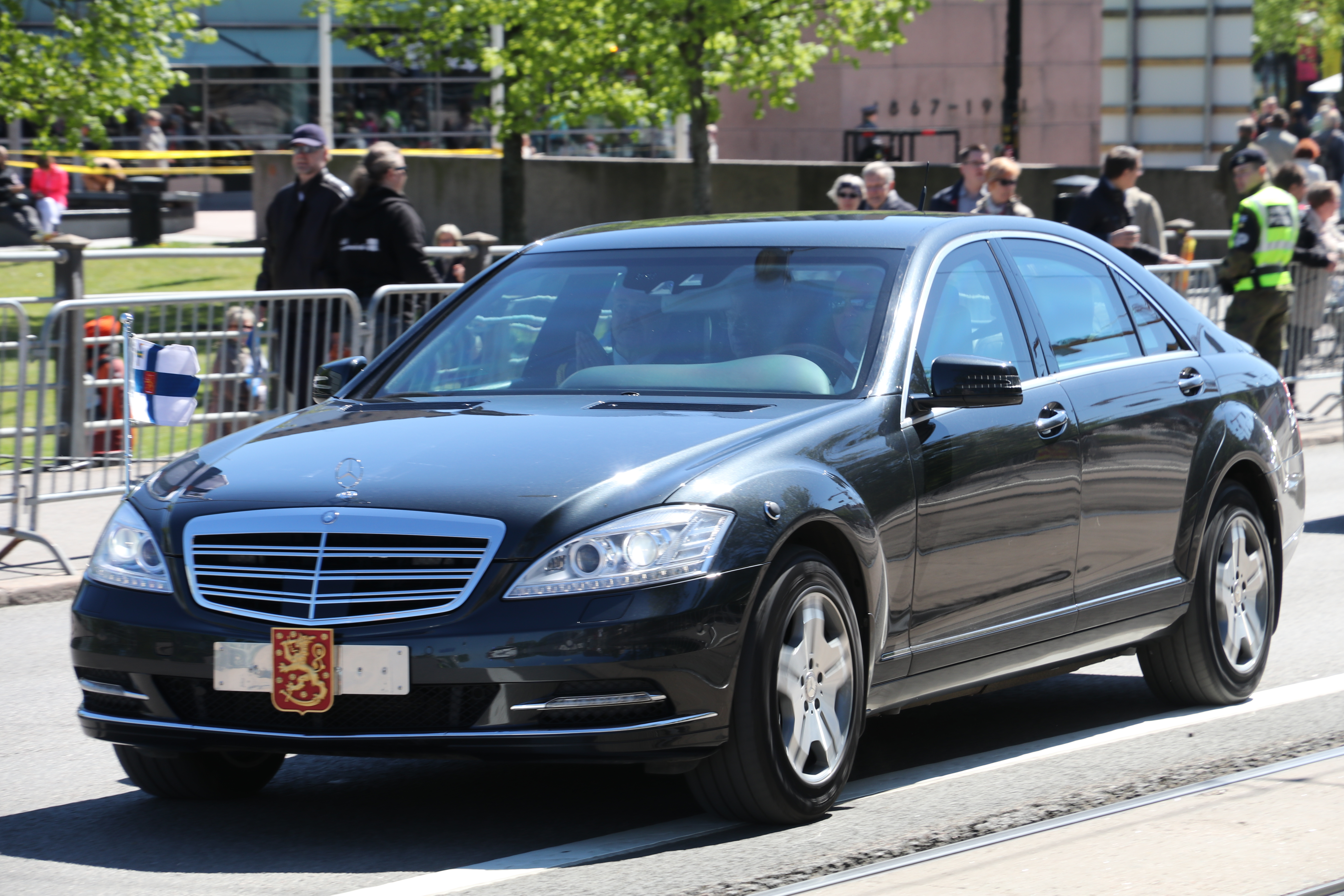 President of Finland arriving before Finnish defence forces flag day 2017 parade start.